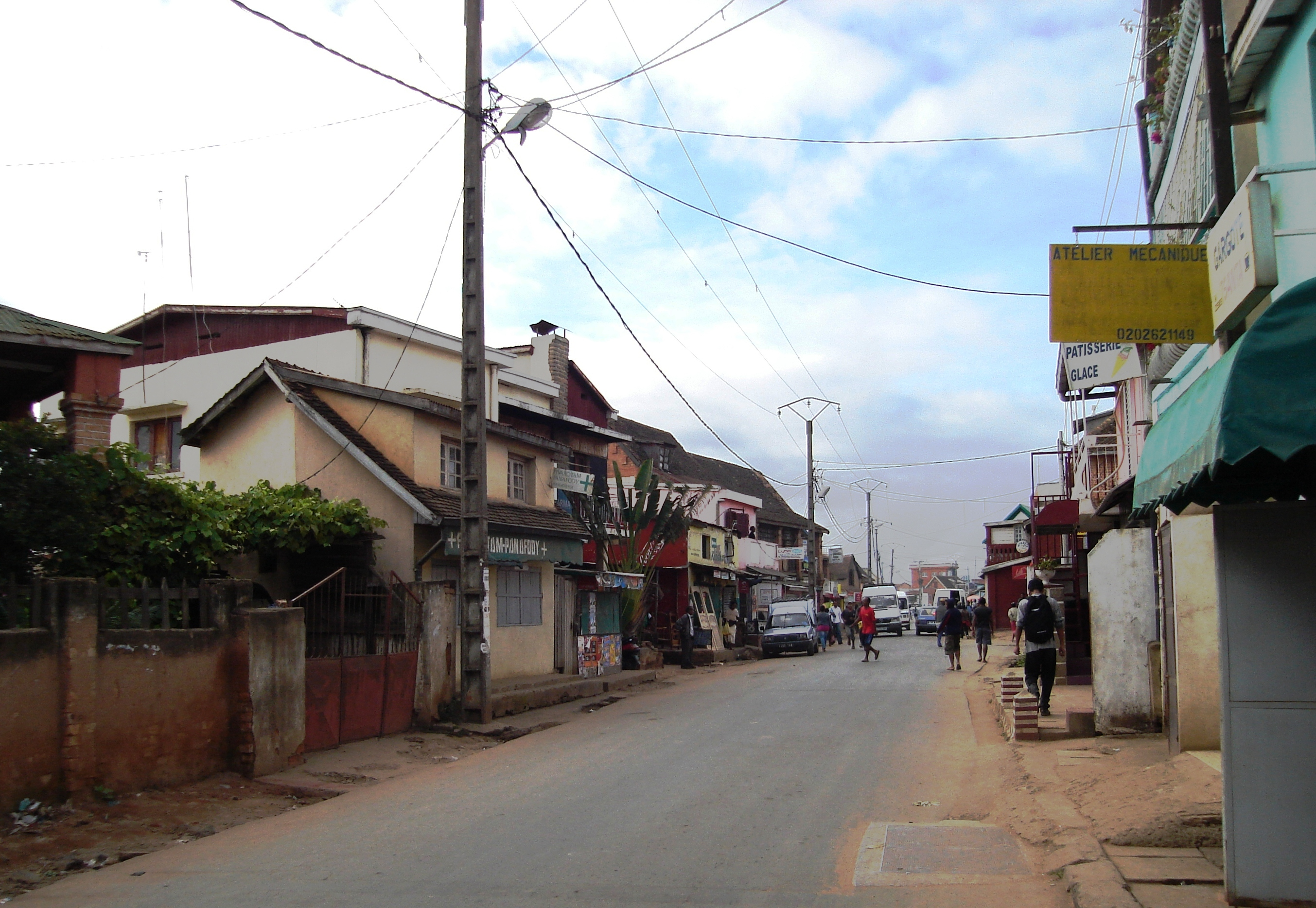 Main road (National Road No. 3) in Sabotsy Namehana, view in southern direction